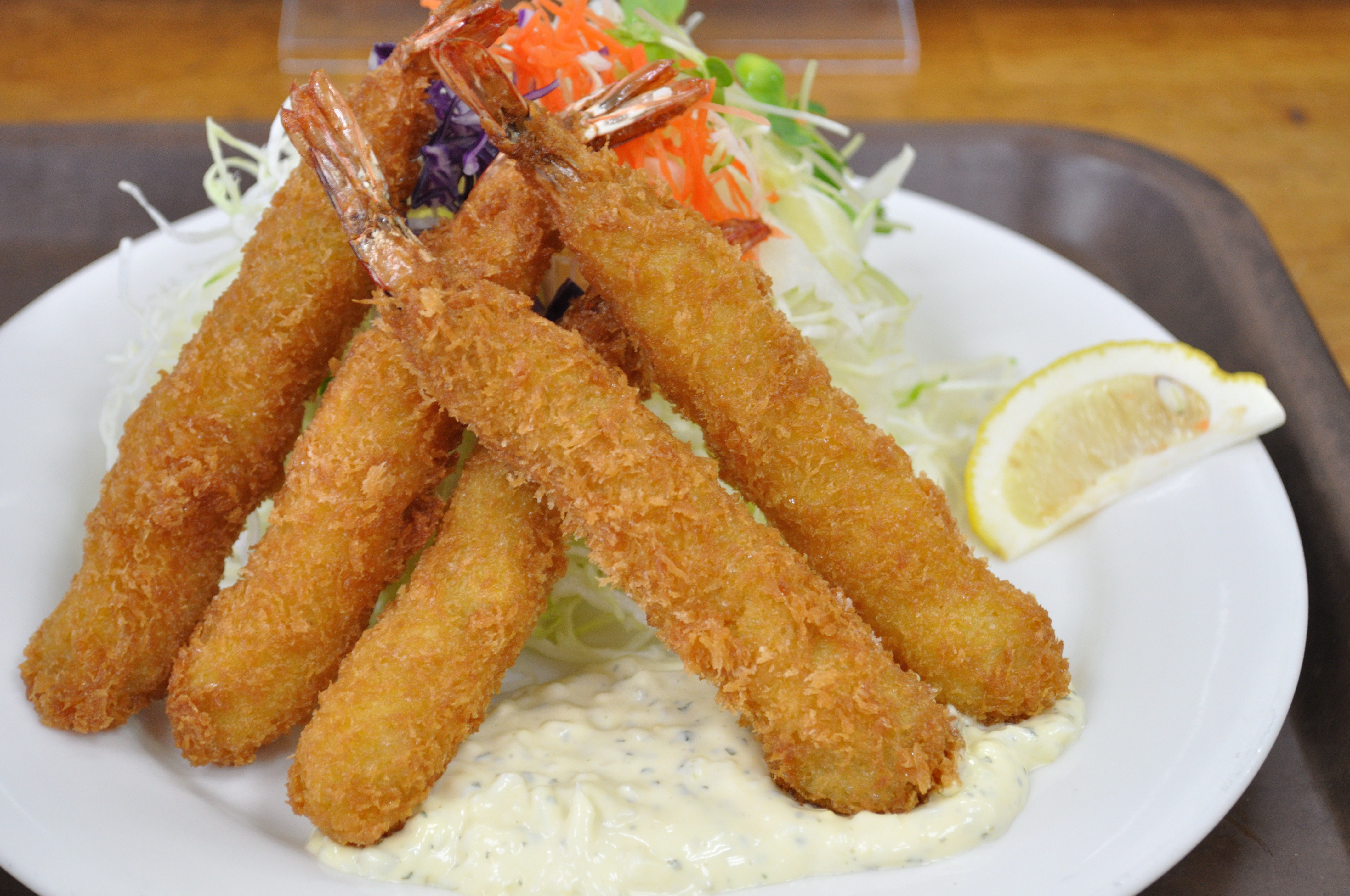 Example of Fried Shrimp.